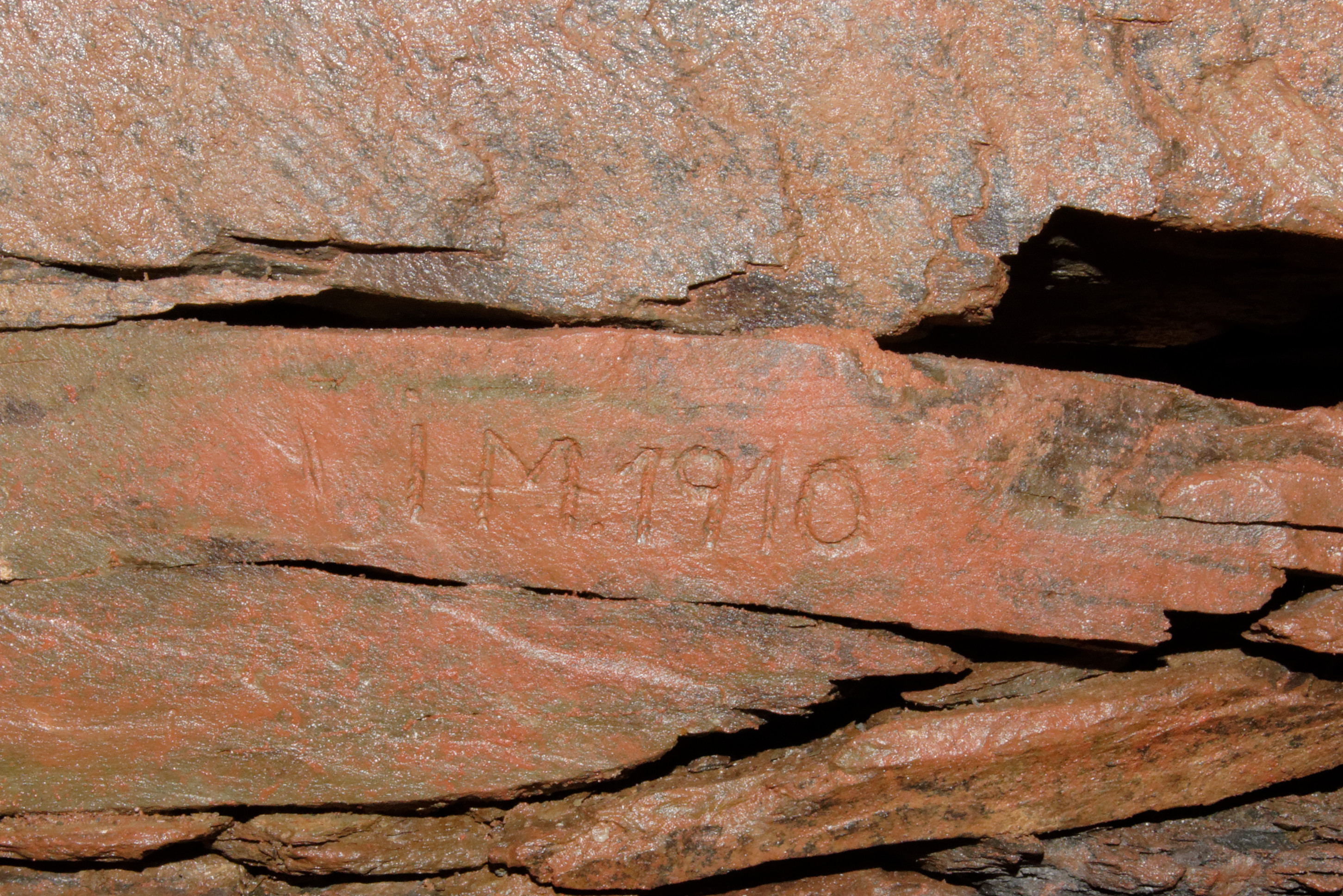 Markscheiderzeichen im Briloner Eisenberg The making of this document was supported by the Community-Budget of Wikimedia Germany.